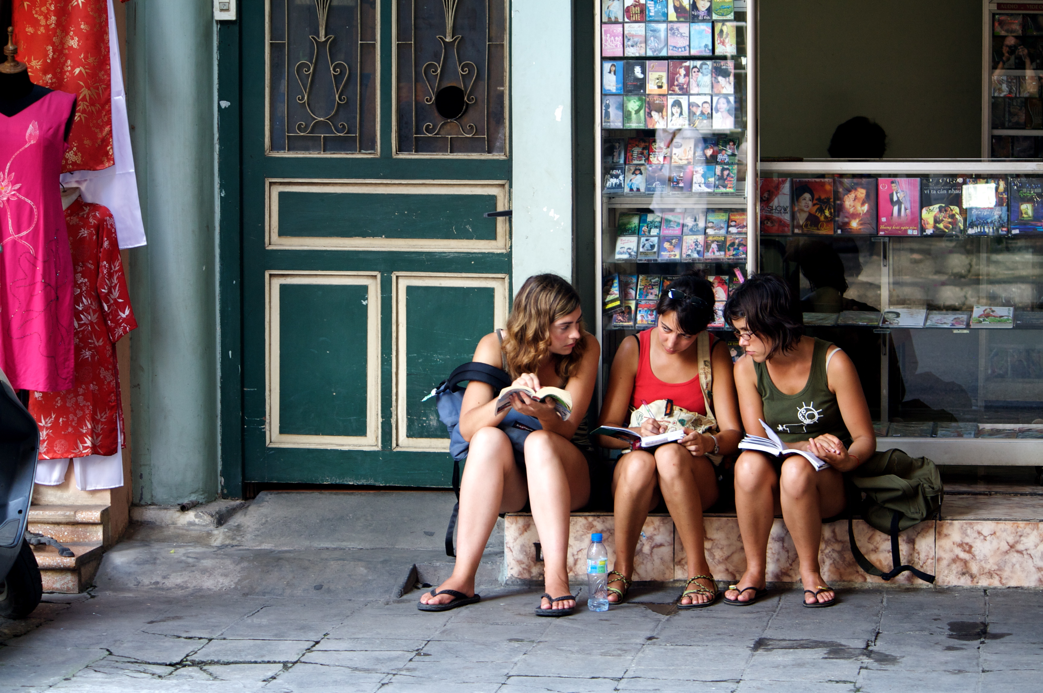 Tourists in Hanoi